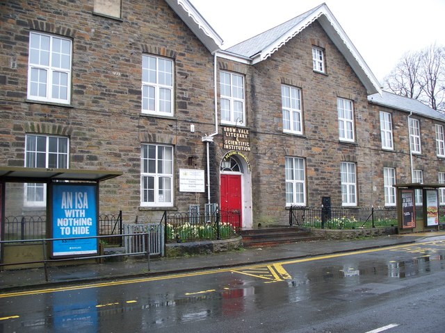 Ebbw Vale Literary and Scientific Institute This building known locally as "The Stute" was established in c1849. The main road along side this building is Church Street.